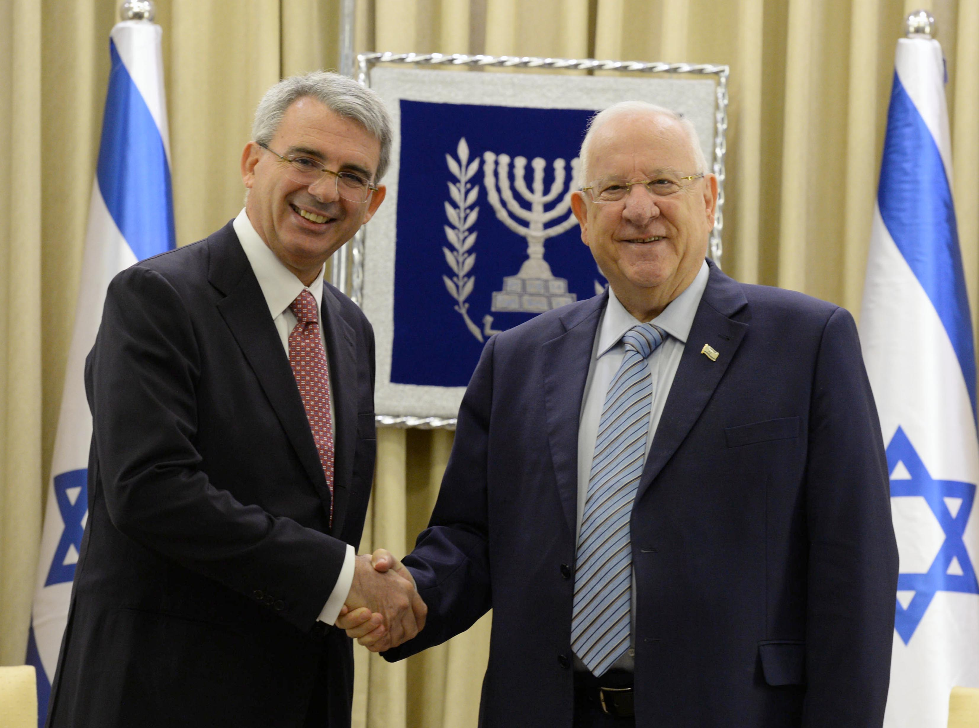 Reuven Rivlin receives the credential of the new ambassador from Italy. Reuven Rivlin receives the credential of the new ambassador from ItalyThe President of the State of Israel, Reuven Rivlin, receives the credentials of the new ambassadors from Italy, Denmark, the European Union and Nigeria - upon their entry as ambassadors of their respective countries in Israel and afterwards met with the Romanian Foreign Minister who visited Israel. Monday, Tuesday, October 23, 2017.